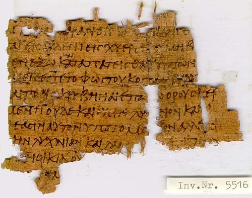 Papyrus 86 recto